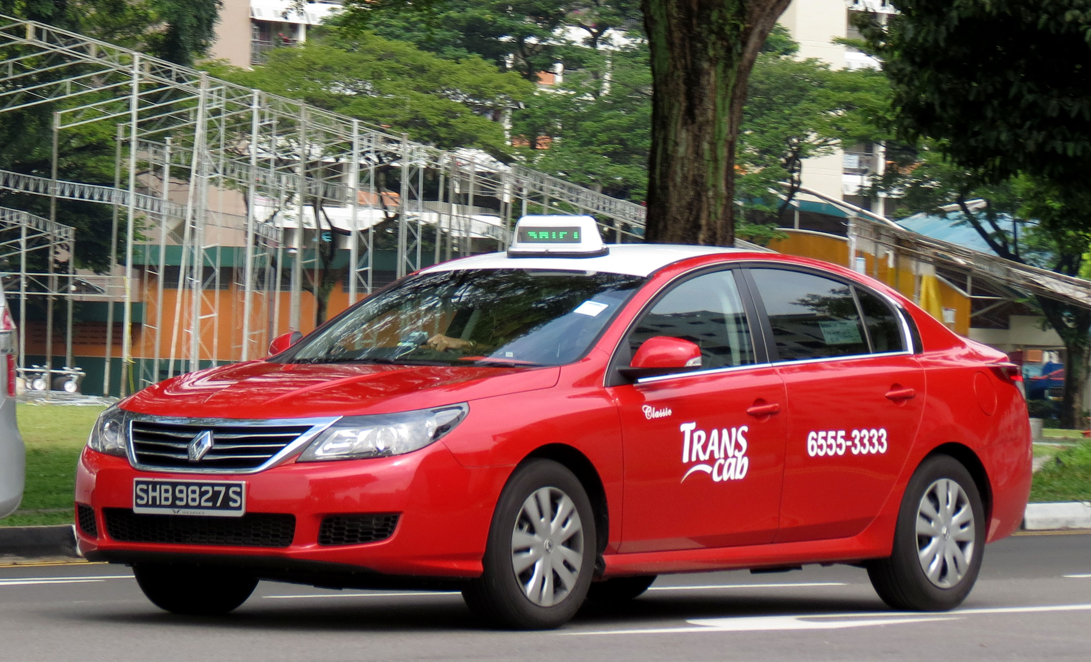 Renault Latitude, operated by TransCab Taxis in Singapore.